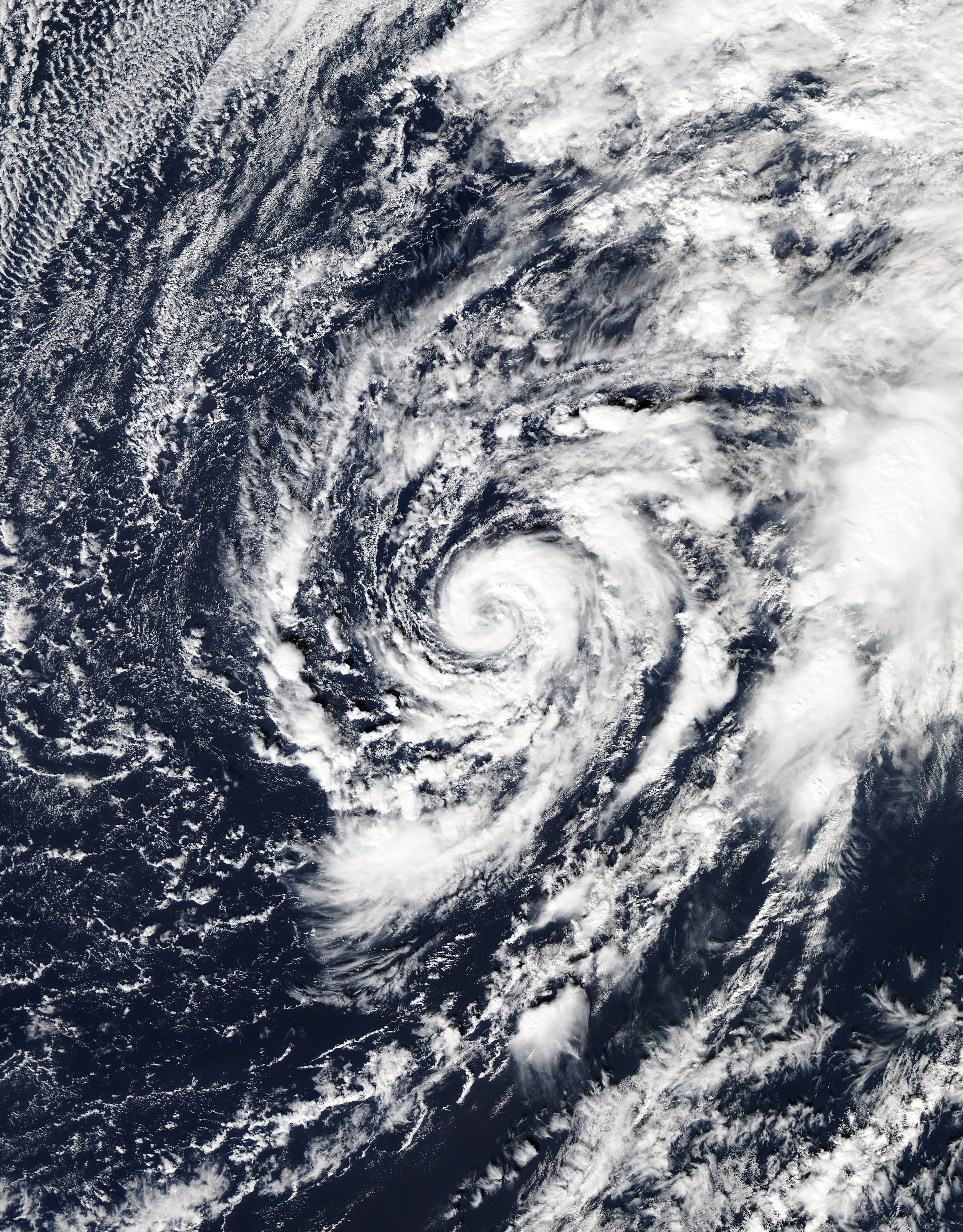 Tropical Depression Alex (01L) in the central Atlantic Ocean